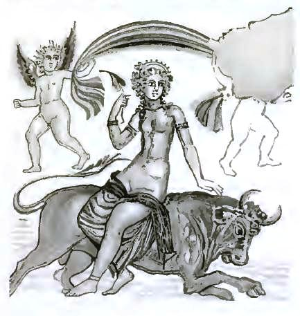 The Abduction of Europa. Romaic mosaic from Sparta